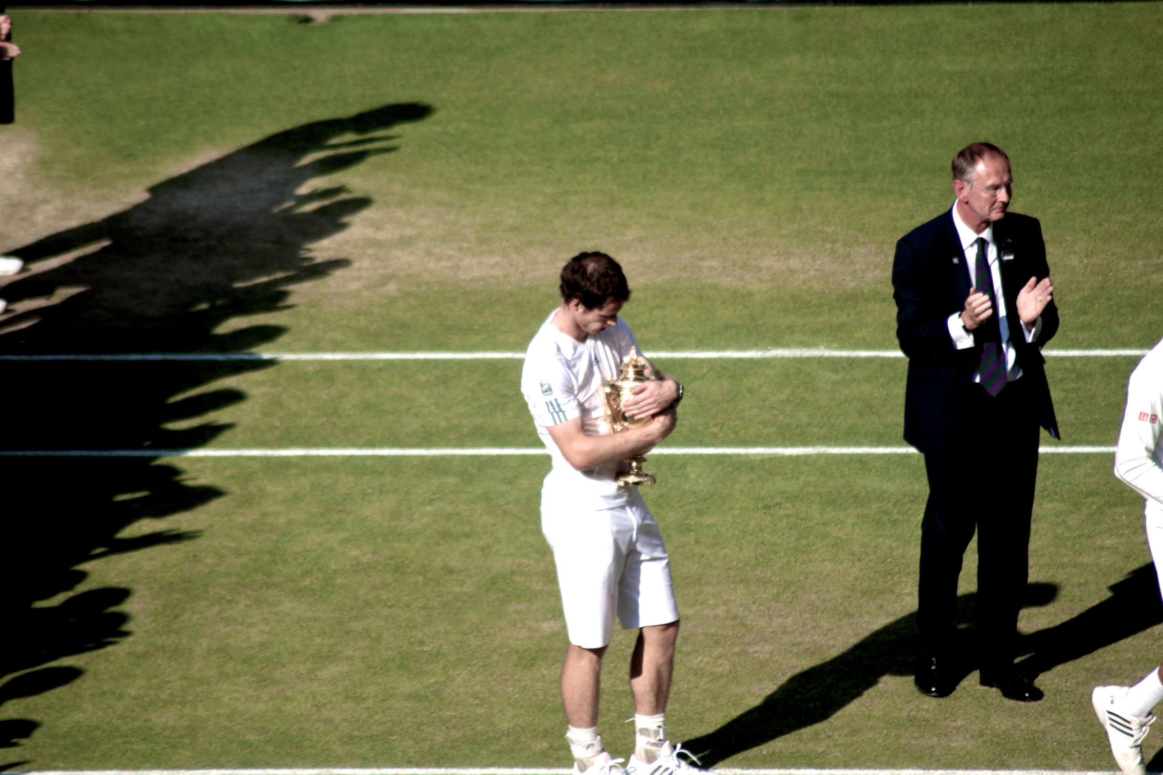 Andy Murray holding the Wimbledon trophy